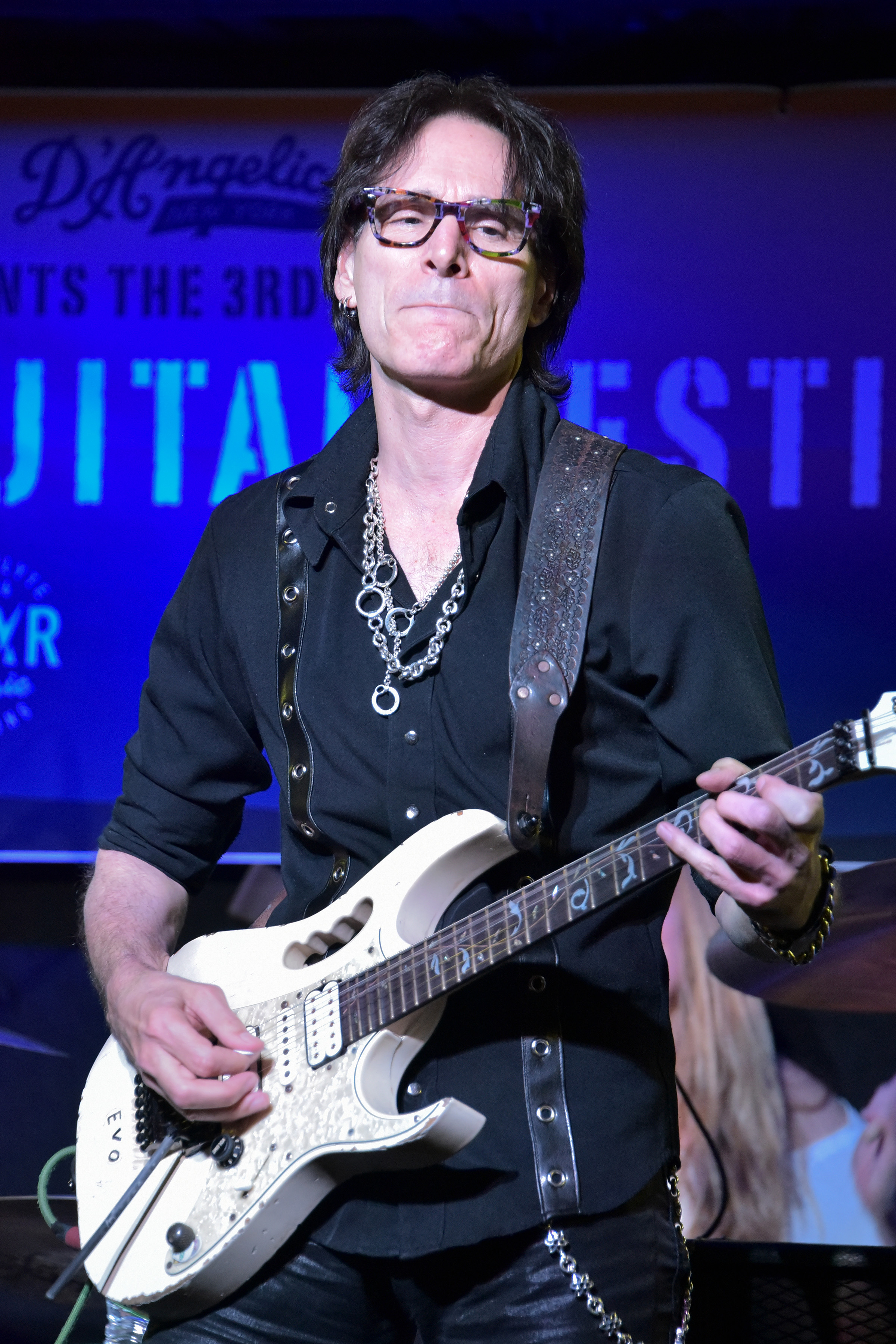 Steve Vai performing with Zepparella in Malibu California on May 19, 2017 - Photo by Glenn Francis of